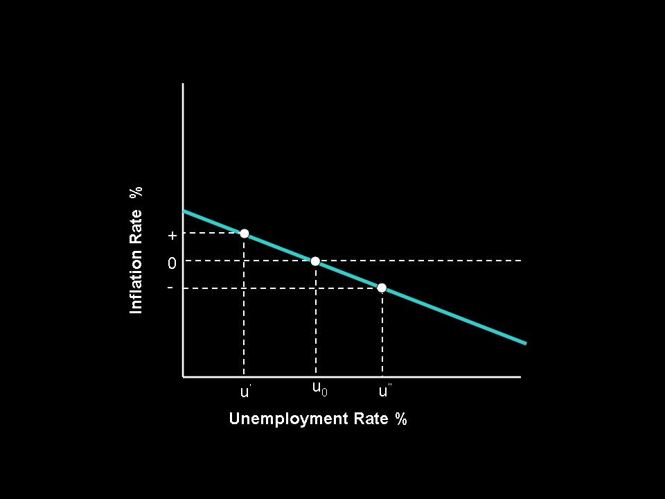 Diagram of early Phillips Curve created using Microsoft PowerPoint